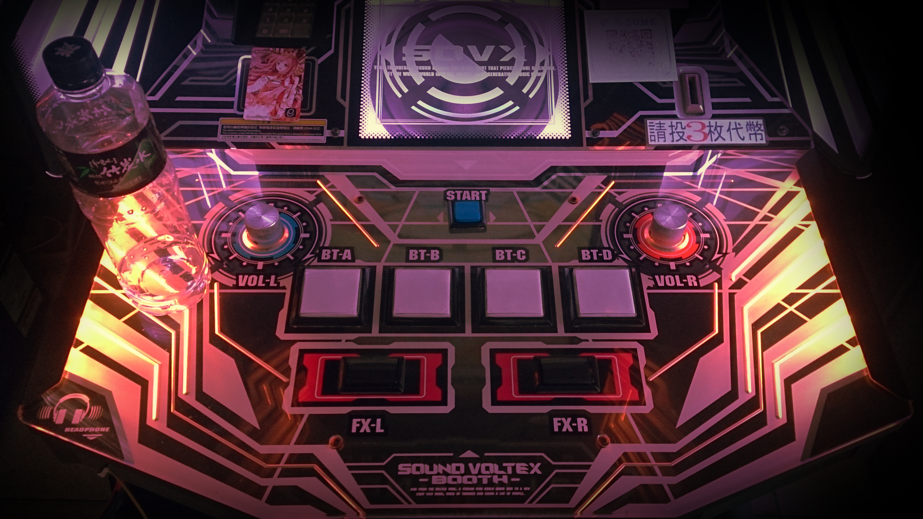 the controllers from SV III.